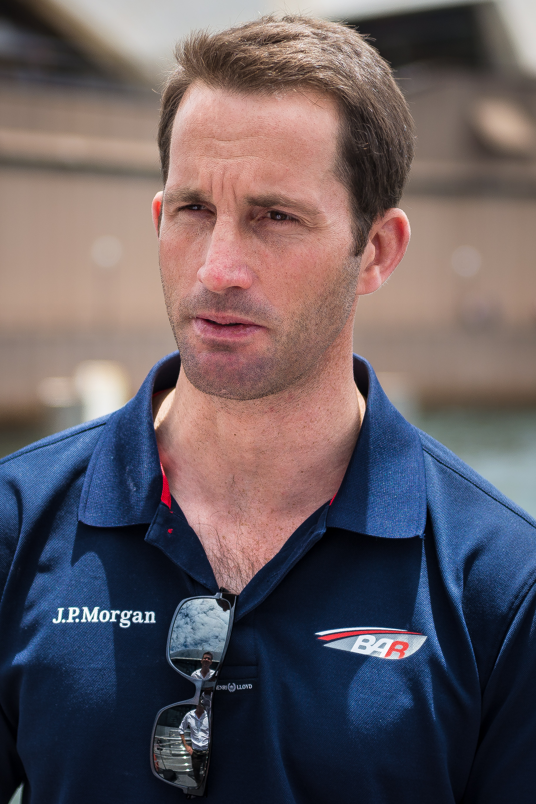 Sir Charles Benedict Ainslie in 2014